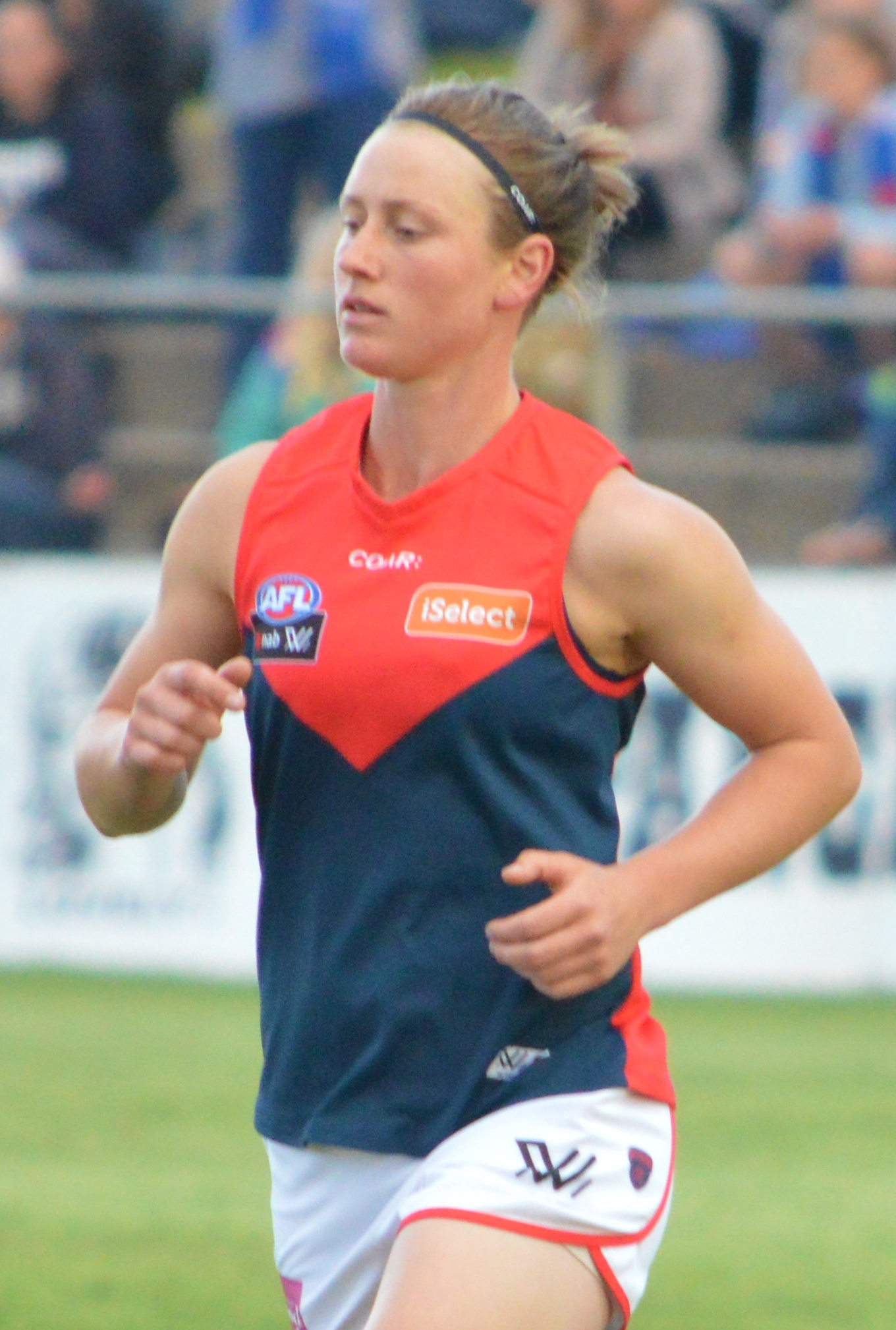 Shelley Scott in Round 3, 2017